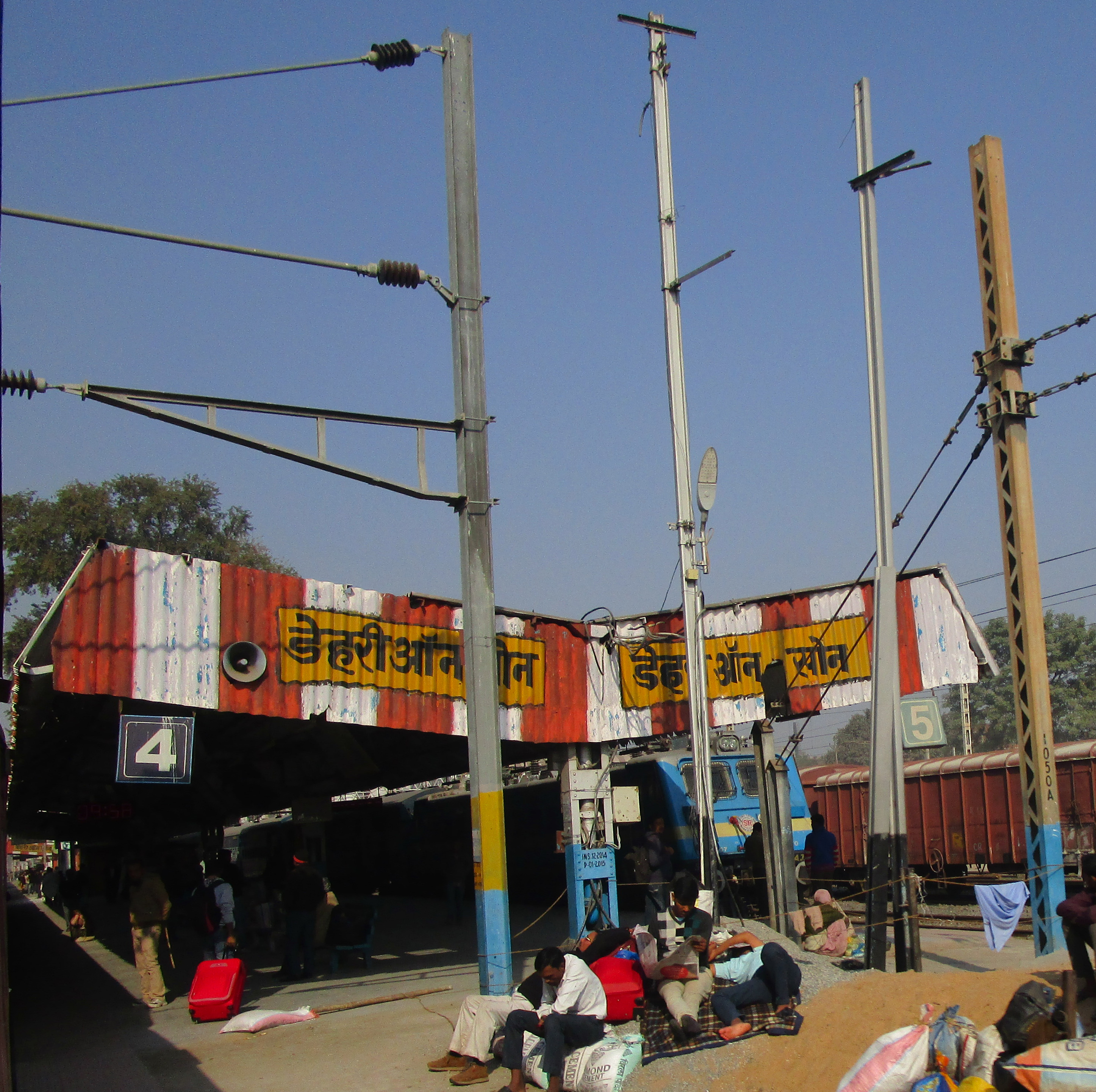 Dehri-on-Sone railway station platform no. 4 and 5